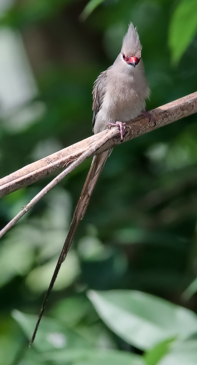 Blue-naped Mousebird